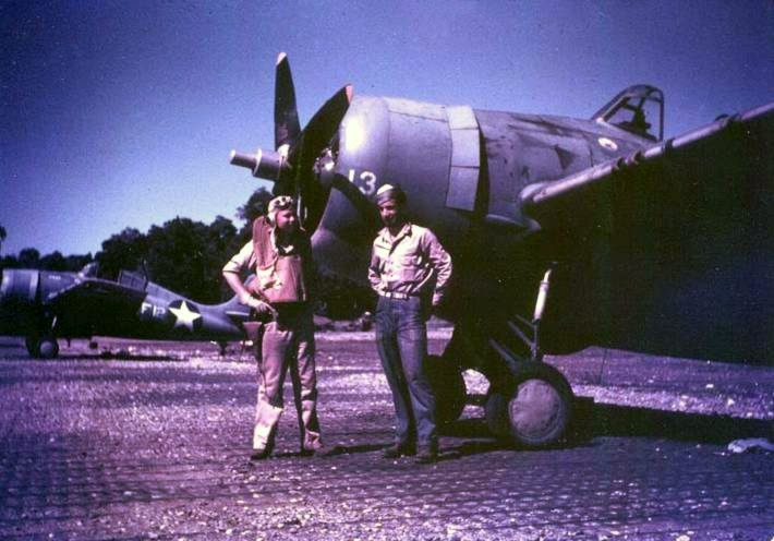 U.S. Navy Grumman F4F-4 Wildcat fighters of Fighting Squadron 11 (VF-11) "Sundowners" on Guadalcanal, 1942.